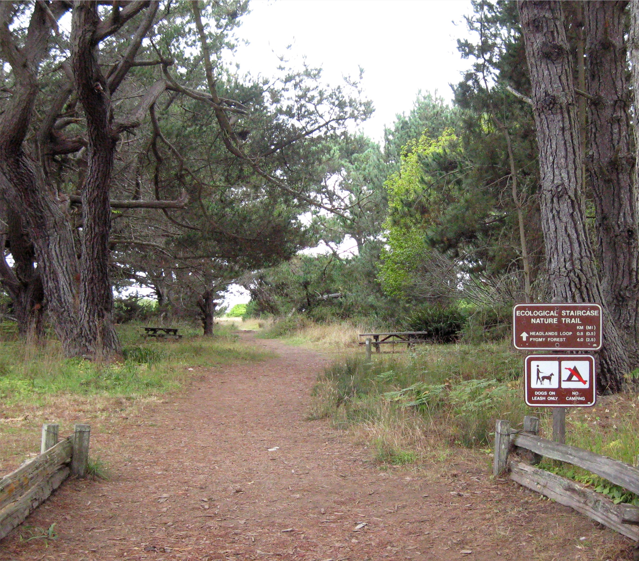 Trailhead for the "ecological staircase" in Jug Handle State Natural Reserve, Mendocino County, California, USA